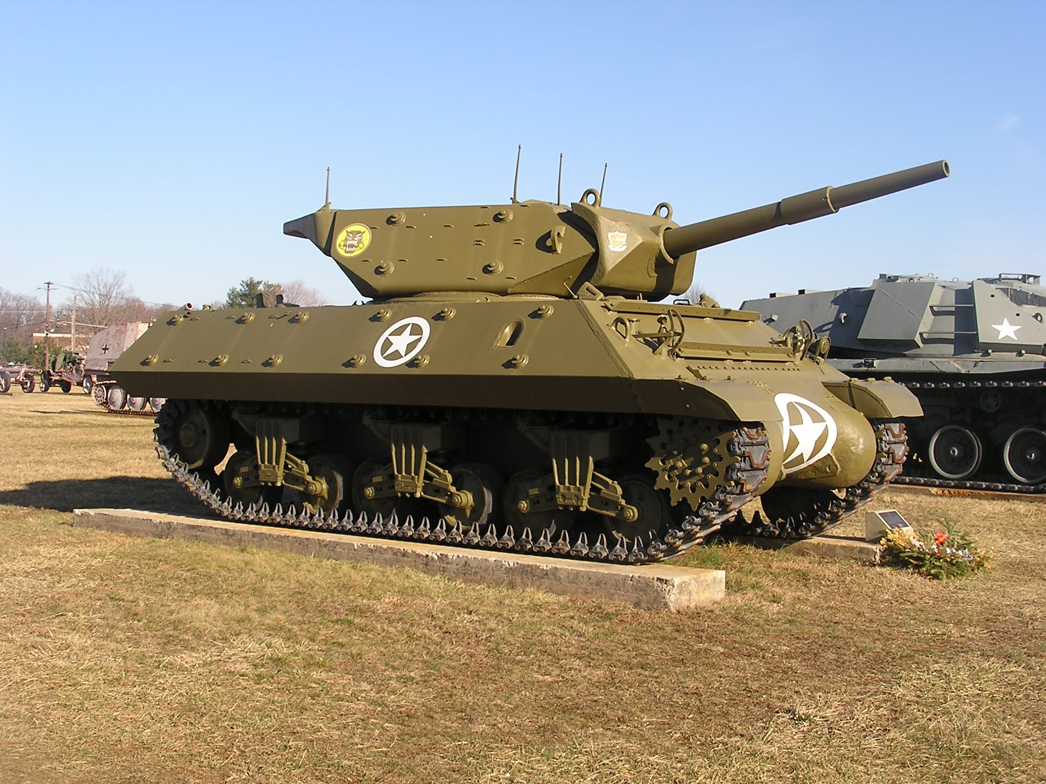 Self made Taken at Aberdeen Proving Grounds